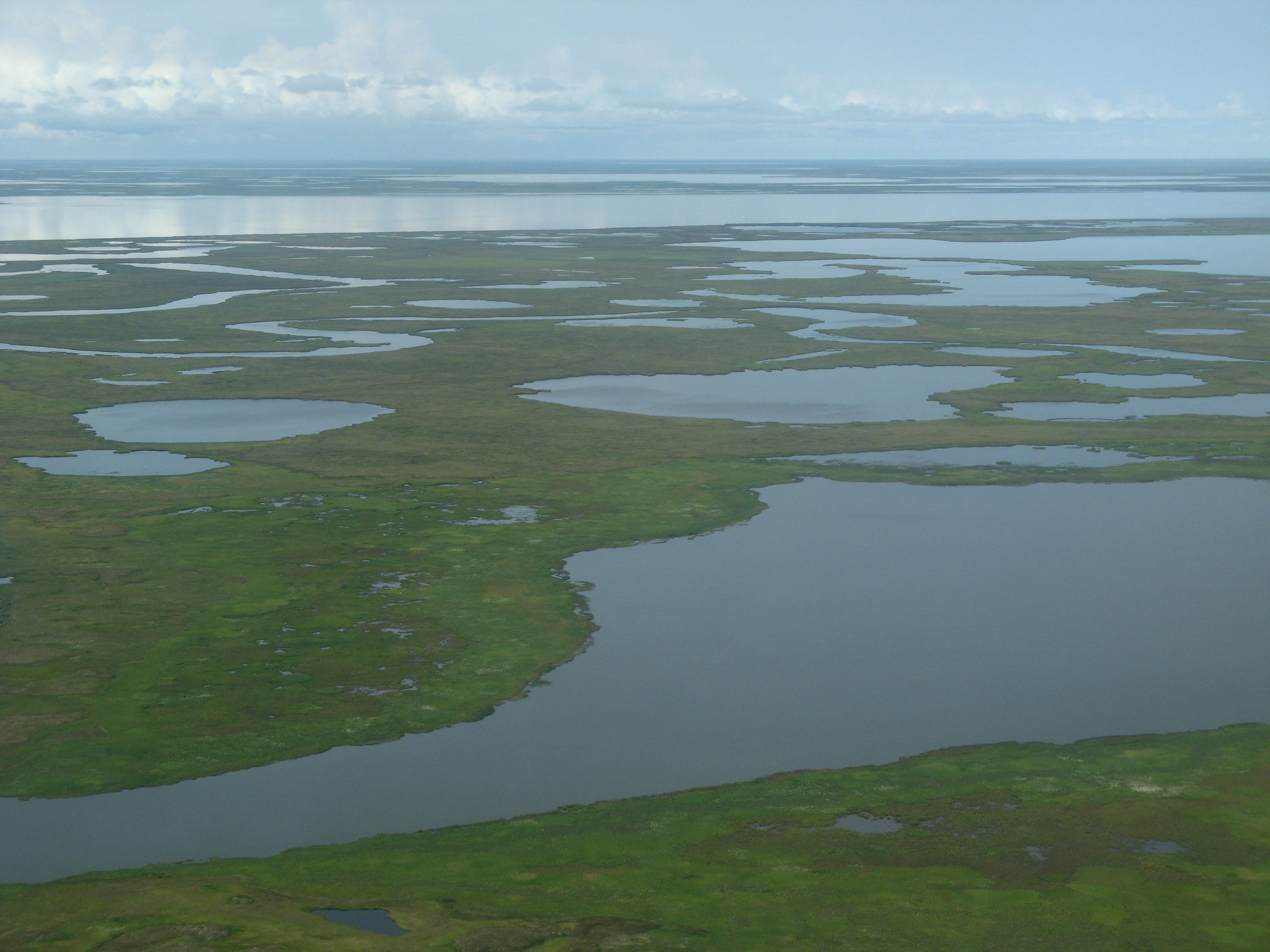 A tundra landscape in Alaska.